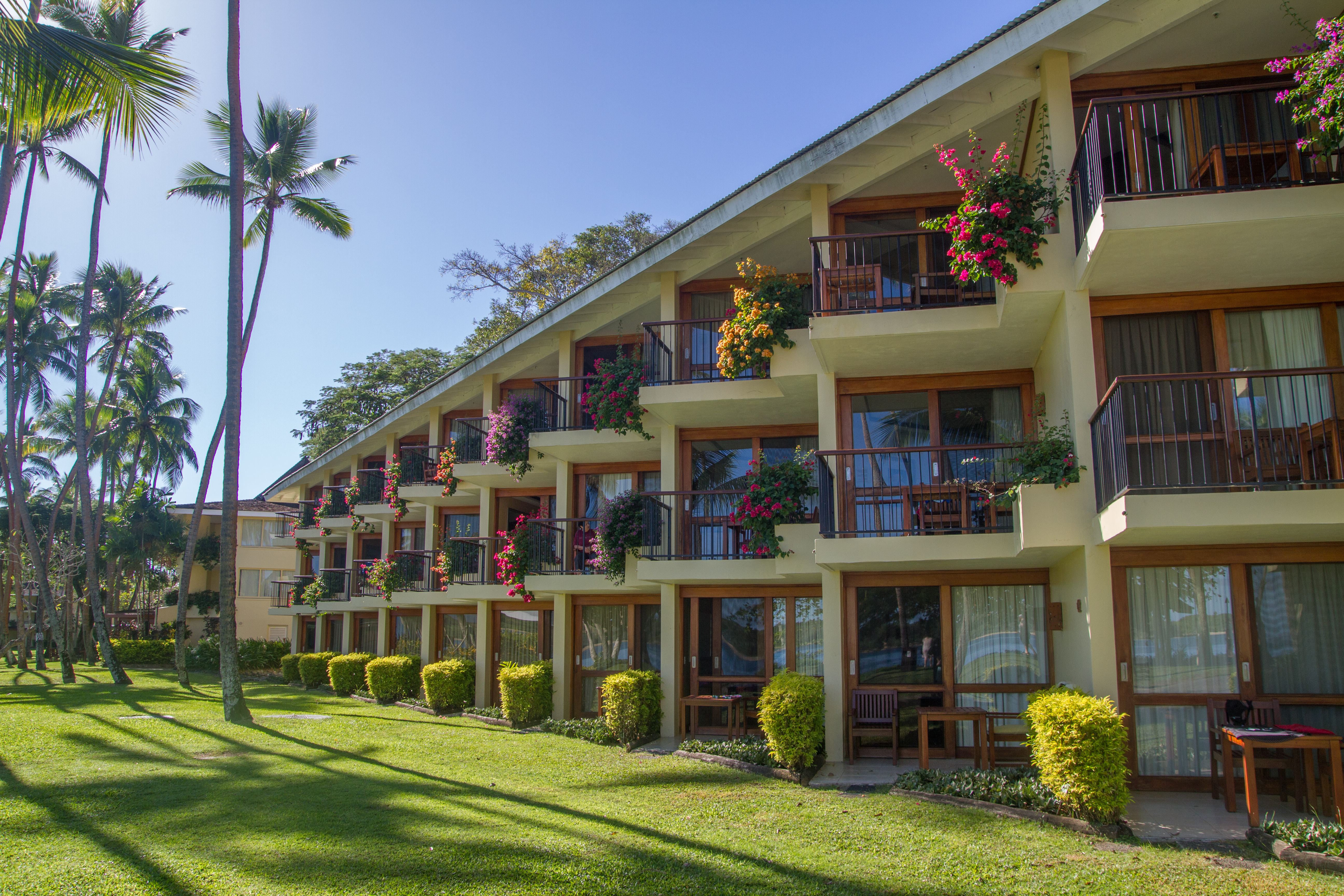 Shanri-La, Yanuca Island, Coral Coast, Fiji